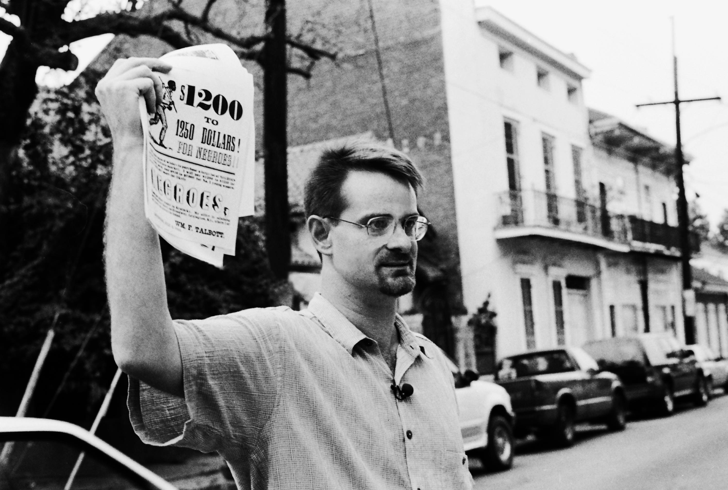 Historian Walter Johnson in New Orleans, 2000. Blog post explaining context